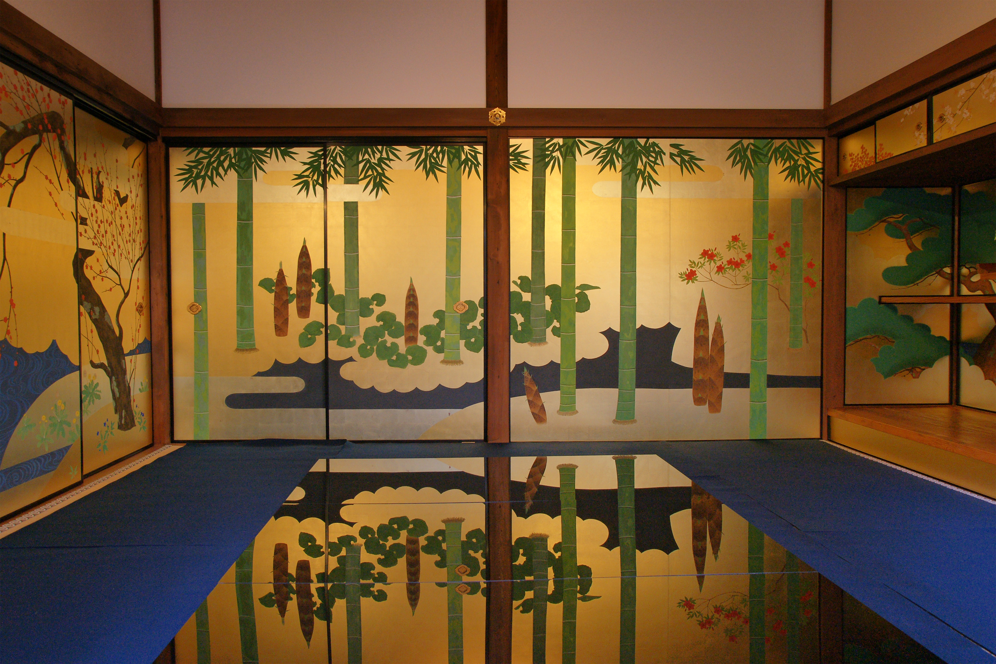 Entokuin in Higashiyama-ku, Kyoto, Kyoto Prefecture, Japan